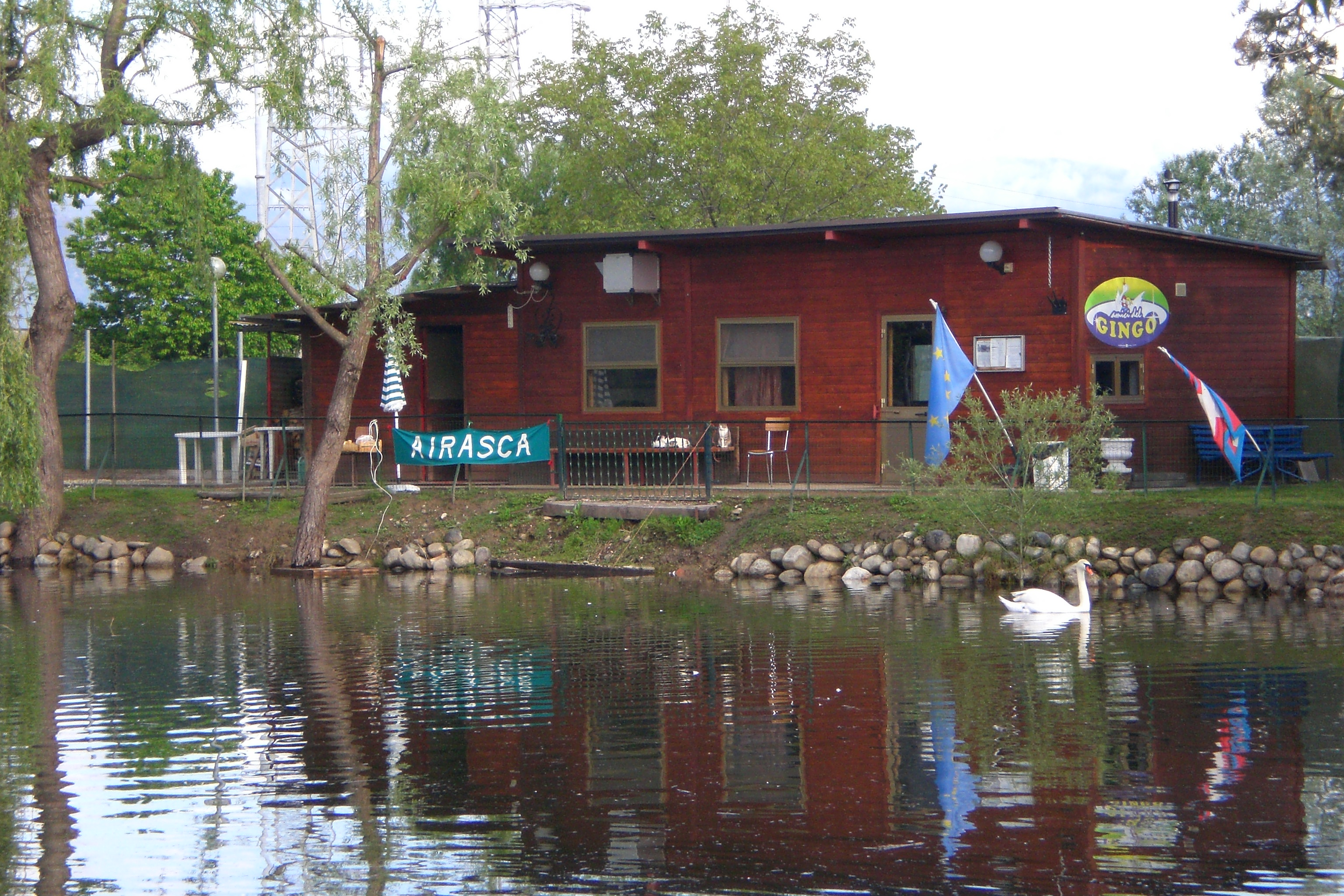 the Gingo pond, Airasca